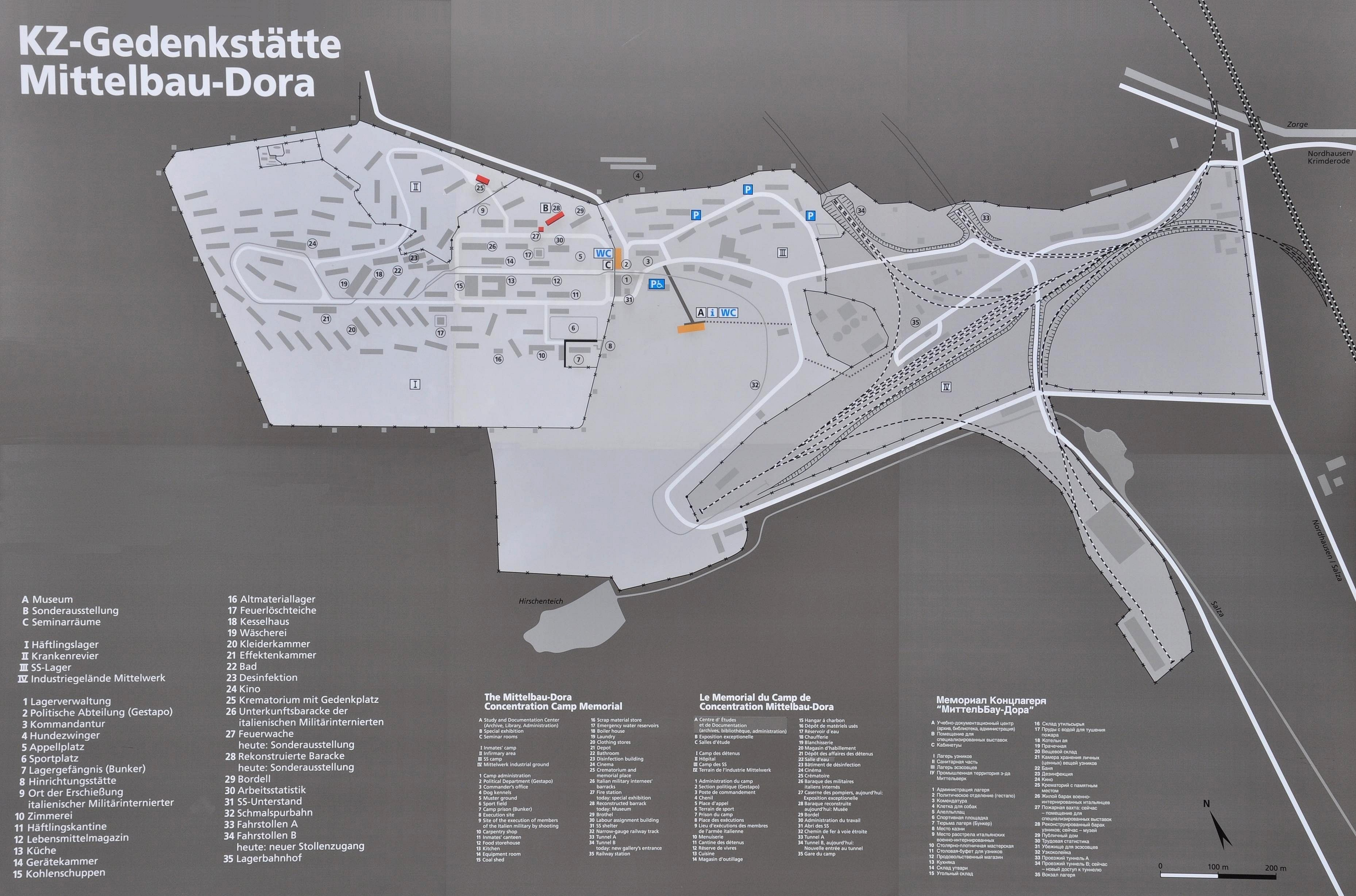 Map of the Nazi concentration camp Dora-Mittelbau in Nordhausen (Thuringia, Germany), with explanations in i.a. English.